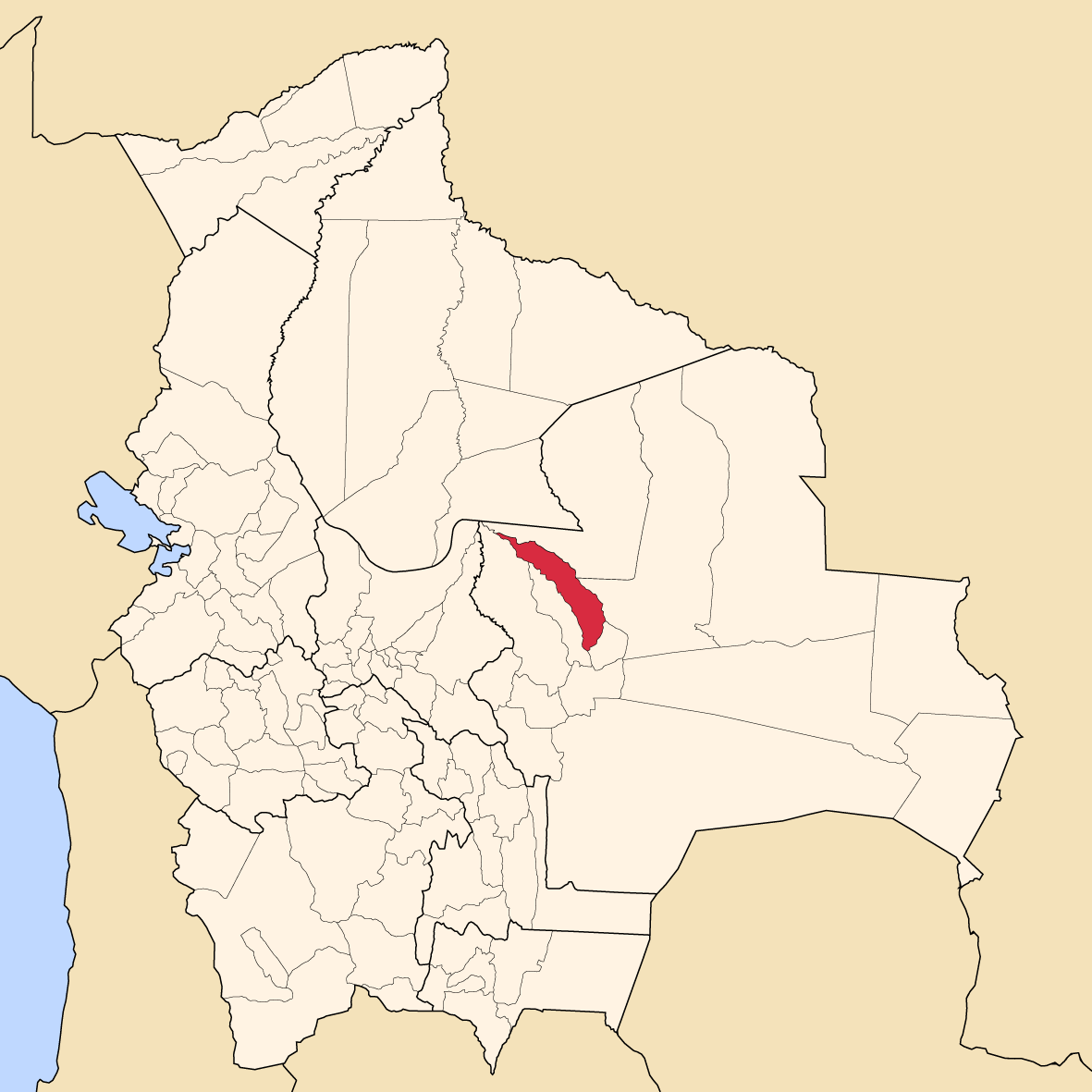 Map of Bolivia showing Obispo Santistevan province, Santa Cruz